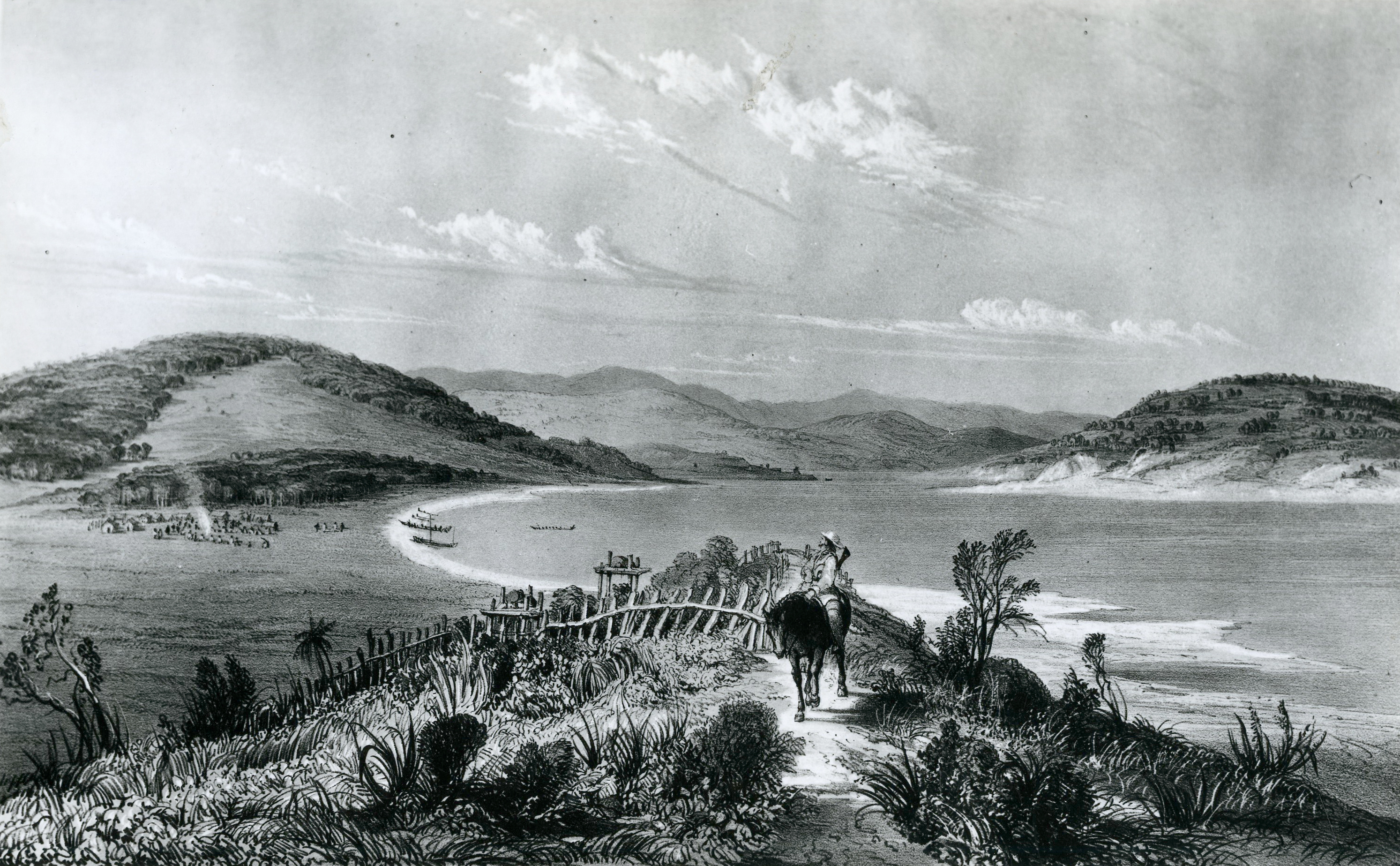 View of Taupō Kainga from the Taua Tapu (Pukerua) Track, drawn by S.G. Brees, Chief Surveyor of the New Zealand Company. Prior to the Wairarapa earthquake in 1855, Taupō was the site of a principal pā of Ngāti Toa's rangatira Te Rauparaha. The pā was situated on the head of land to the north of Plimmerton beach and at the sea end of Taupō Swamp, which was then an inlet of Porirua harbour. This pā was strategic because it produced a landing and leaving base for canoes to travel in all directions, but particularly to the island of Te Mana-O-Kupe-O-Aotearoa. All the leading chiefs used the pā, and it was here that Te Rauparaha was captured in 1846 ( A small naval party landed at Taupō (Plimmerton) at dawn on 23 July. According to Pākehā reports, Te Rauparaha appeared from his dwelling and grabbed a taiaha. He was seized and led away in chains to HMS Calliope, where he was informed that he was under arrest for supplying weapons to Māori deemed to be in open rebellion against the Crown. No charges were actually laid and his continued detention was illegal. Te Rauparaha was sent to Auckland and only released in January 1848. After Te Rauparaha's capture and the retreat of his nephew, Te Rangihaeata, following the fight at Battle Hill the pā was slowly abandoned and became farmland. The principal Māori villages after this time were Takapuwahia and Te Urukahika. Archives Reference: AAME W5603 Box 112/ 11/1/287 Material from Archives New Zealand Caption information from .nz and